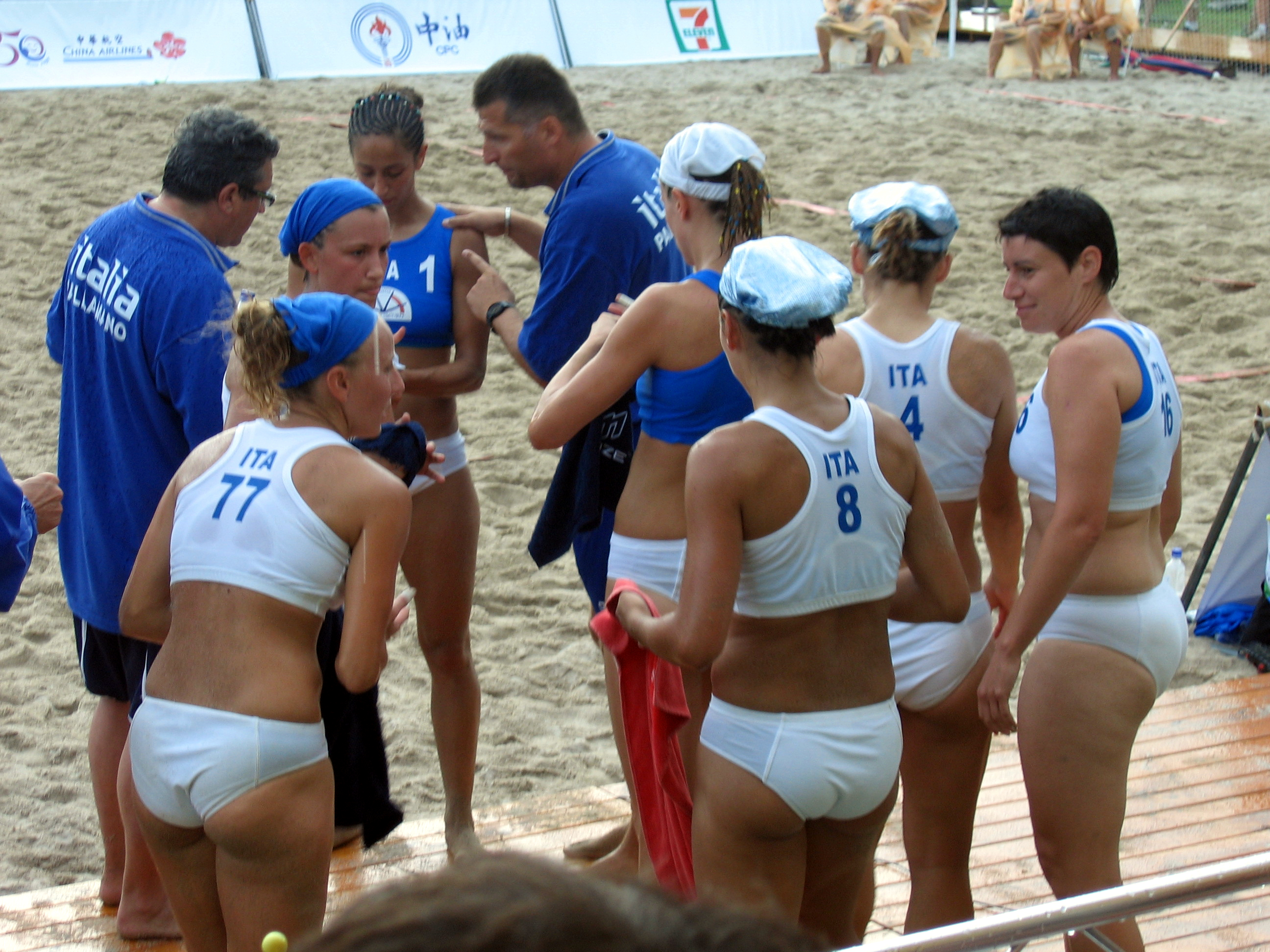 Women's Italian team, winner of World Games beach handball tournament